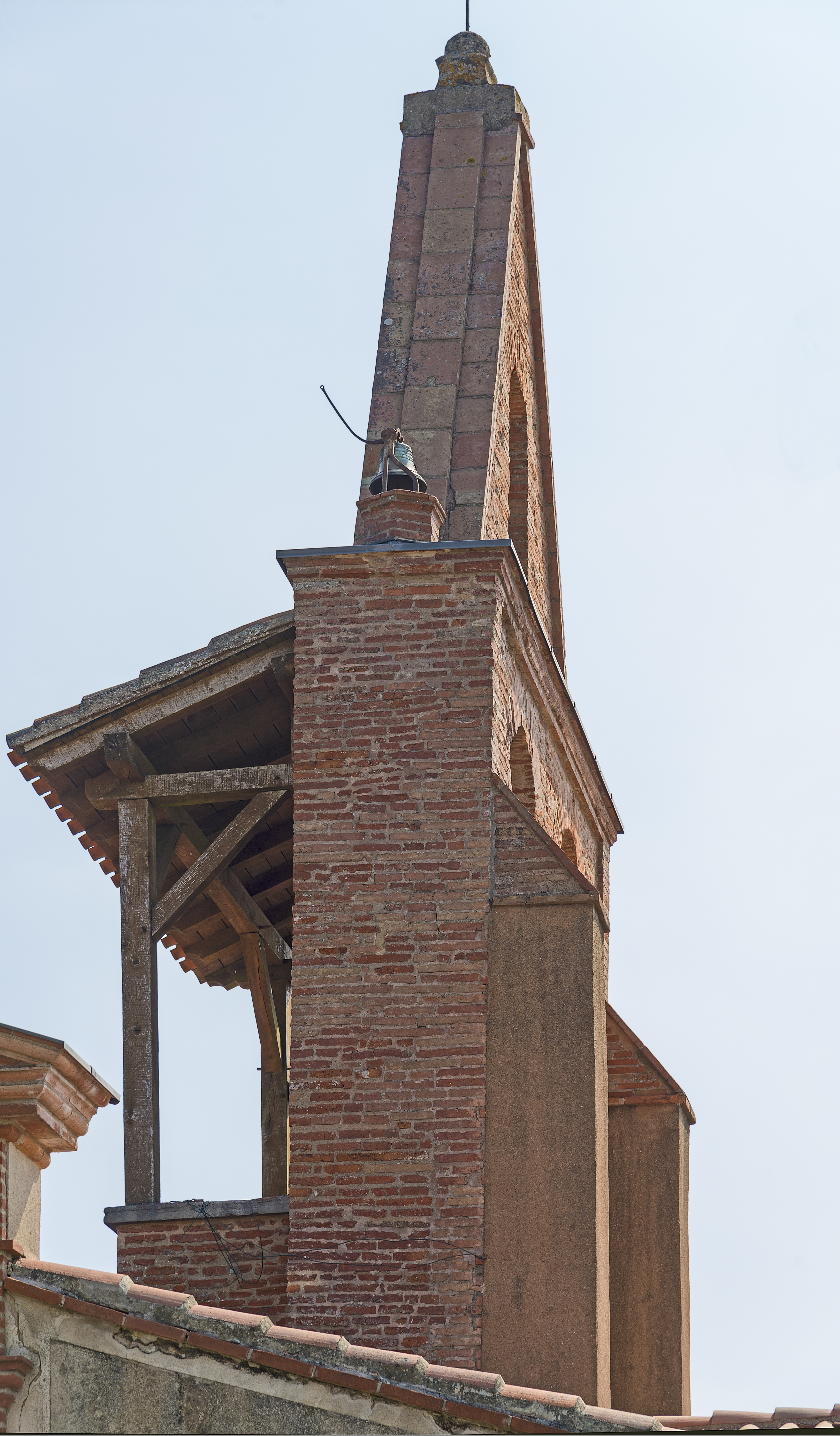 Pujaudran. The Bell tower.